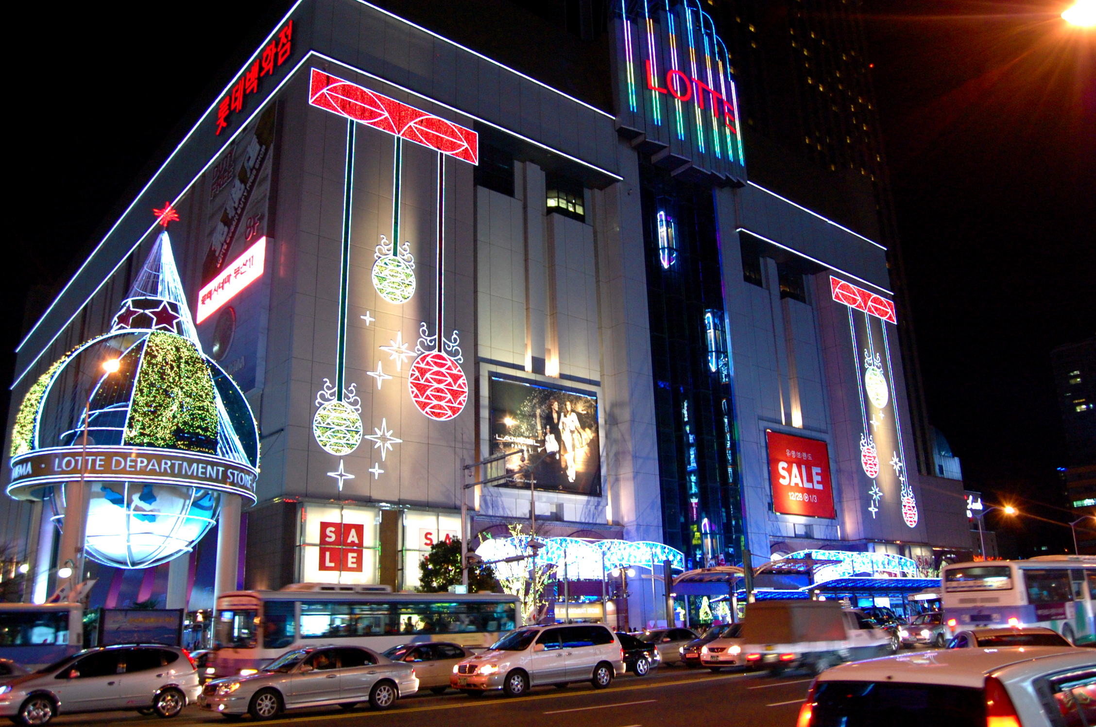 Lotte Department Store in Seomyeon, Busan. Photograph from Flickr; author Jrwooley6; license of cc-by-sa-2.0.